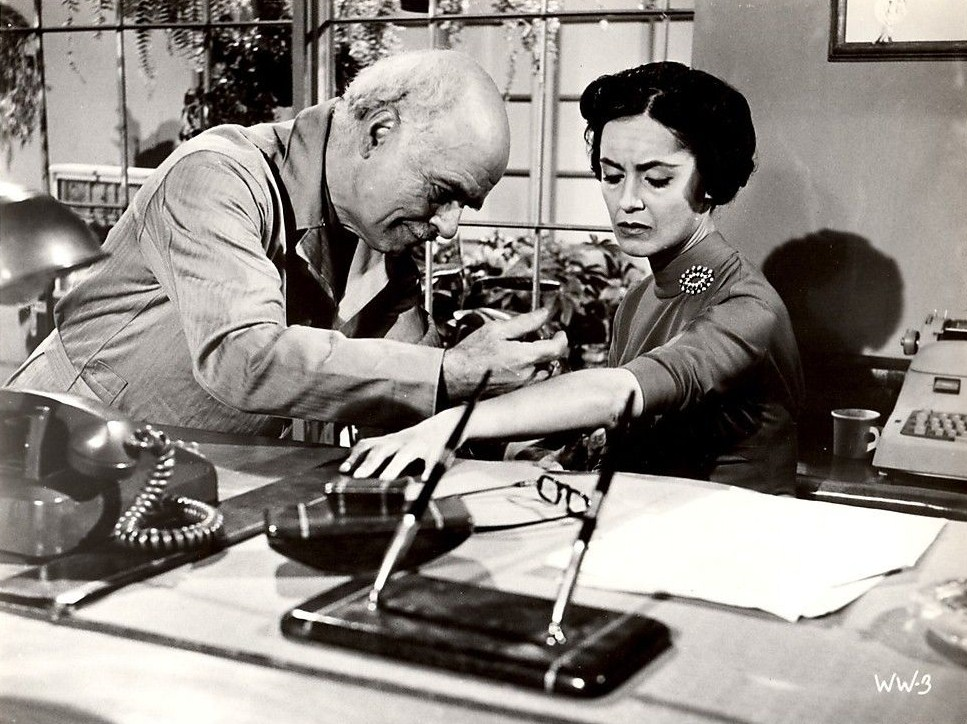 Michael Mark and Susan Cabot in The Wasp Woman (1959) - publicity still (cropped)